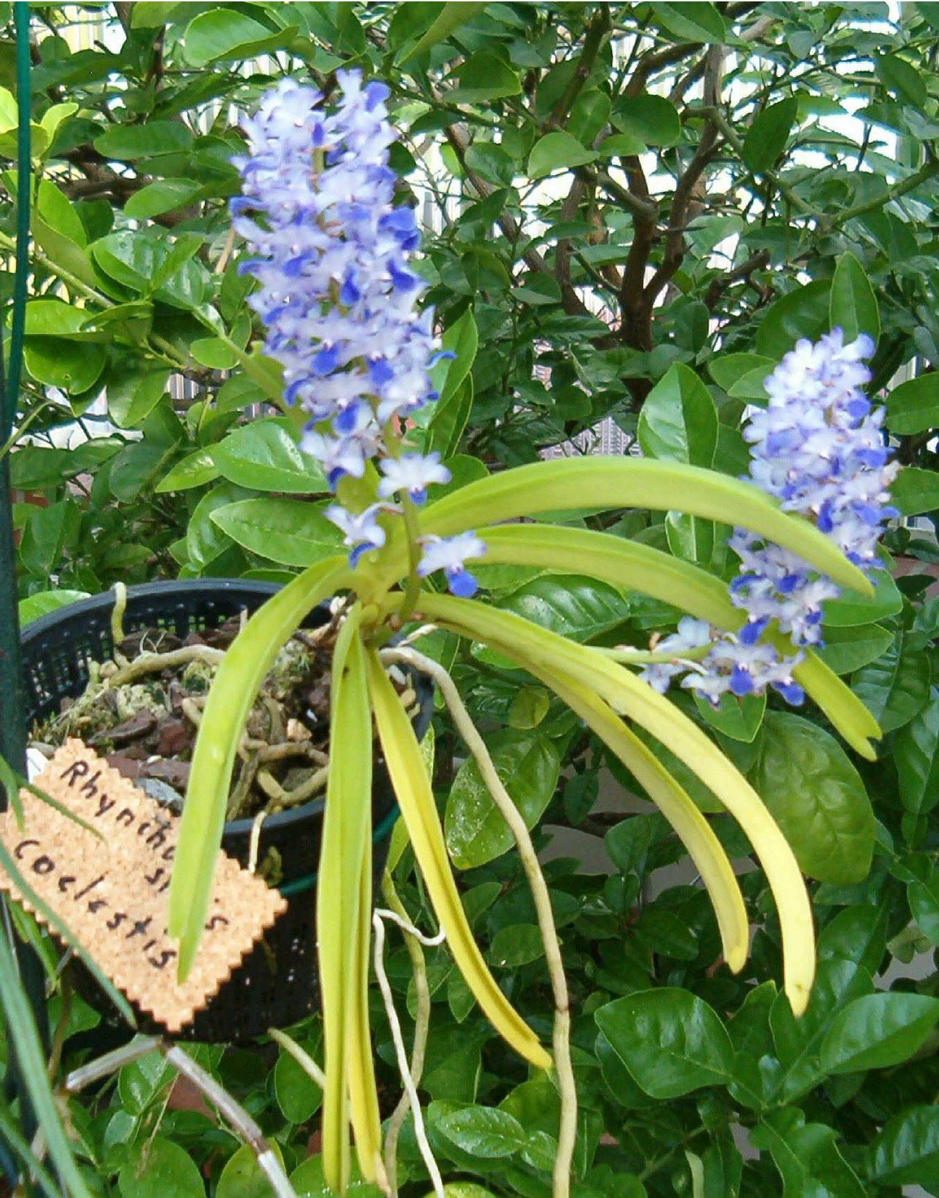 Rhynchostylis coelestis, Habitus and Flowers Location: Botanical Gardens Berlin - Orchid Exhibition